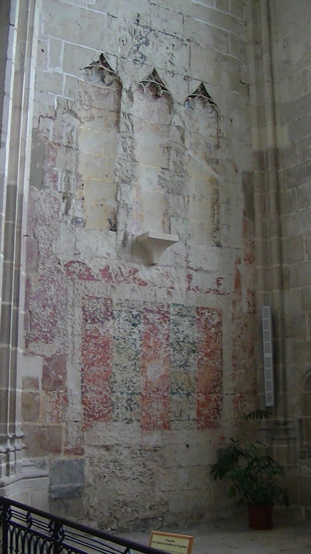 Chapel of St. Donatian and St. Rogatian in Nantes Cathedral, defaced during the French Revolution in 1793. . Object location47° 13′ 05.88″ N, 1° 33′ 03.24″ W